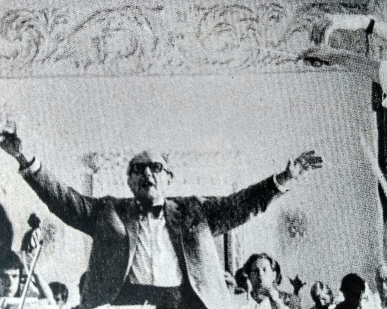 Hans Swarowksy teaching 1972 in Ossiach